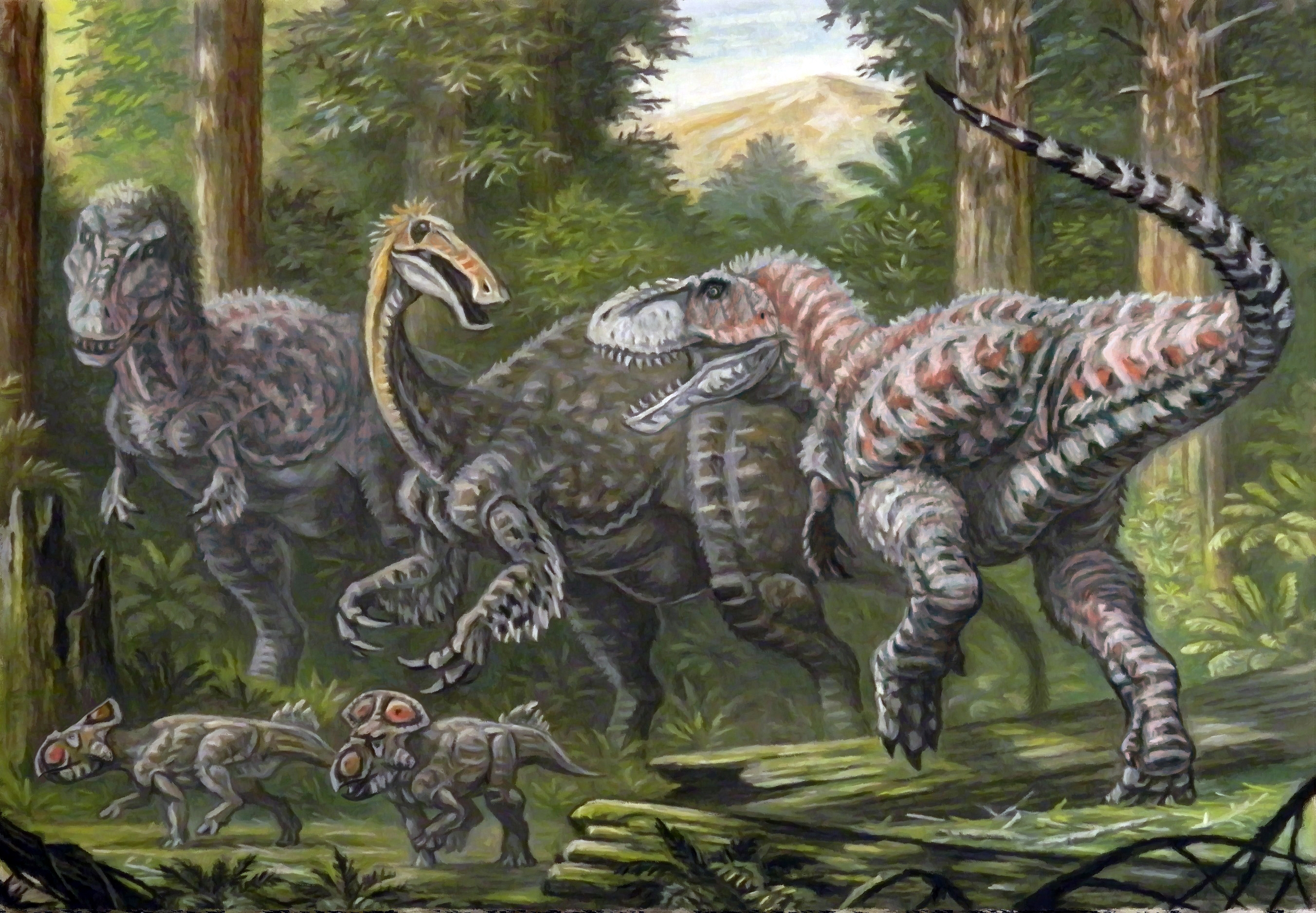 Two Tarbosaurus (on each side) attacking a Deinocheirus (center). Bottom : two smaller Breviceratops .